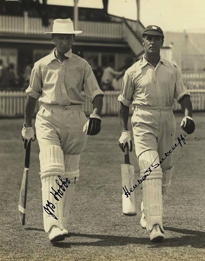 Autographed photograph of the English batsmen, Jack Hobbs and Herbert Sutcliffe, 1928. Hobbs and Sutcliffe were the opening batsmen for England in the cricket test match held in Brisbane in 1928.